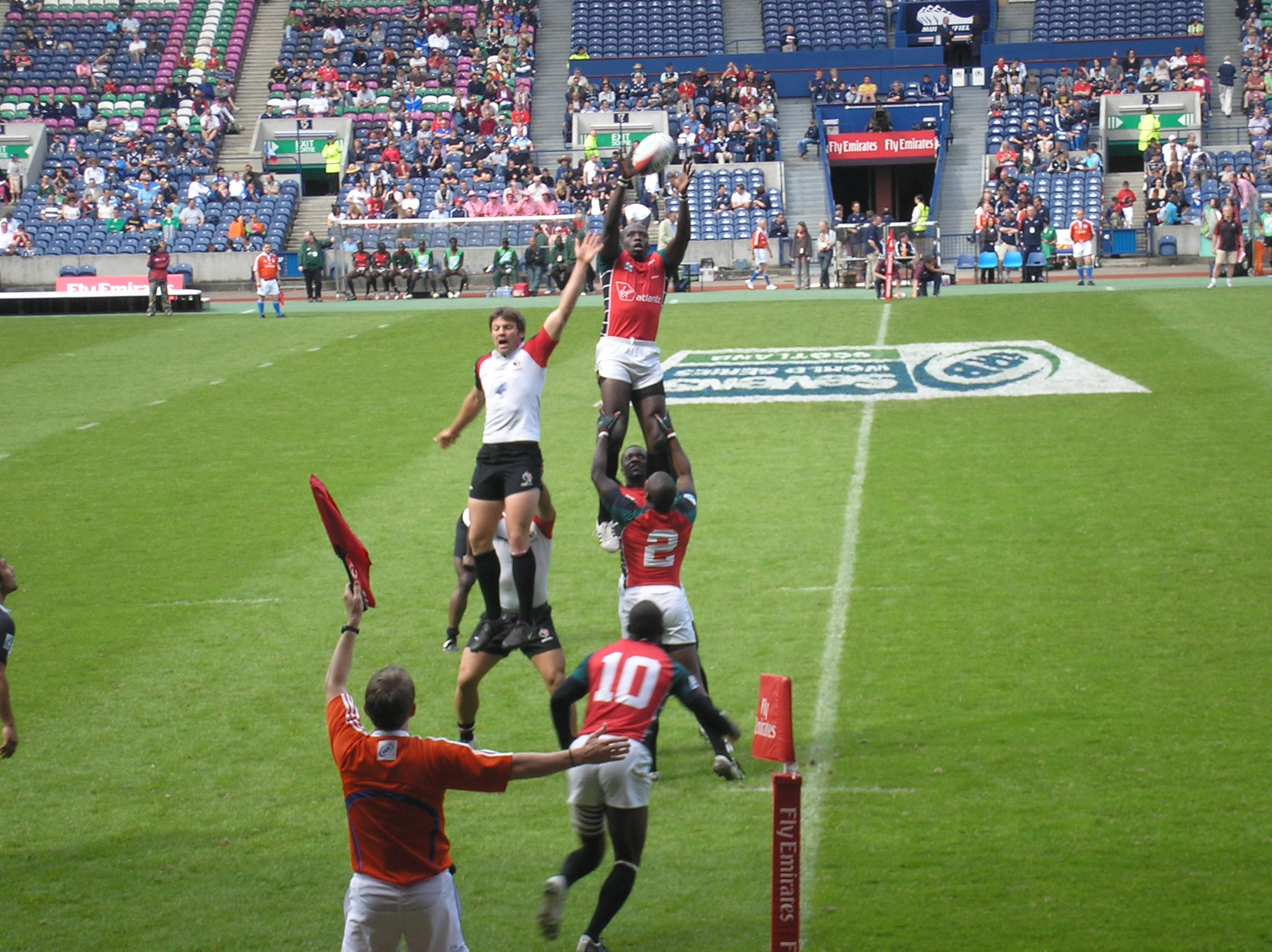 This is a photo from when Canada played Kenya in the Emirates Airline Edinburgh Sevens 2008.